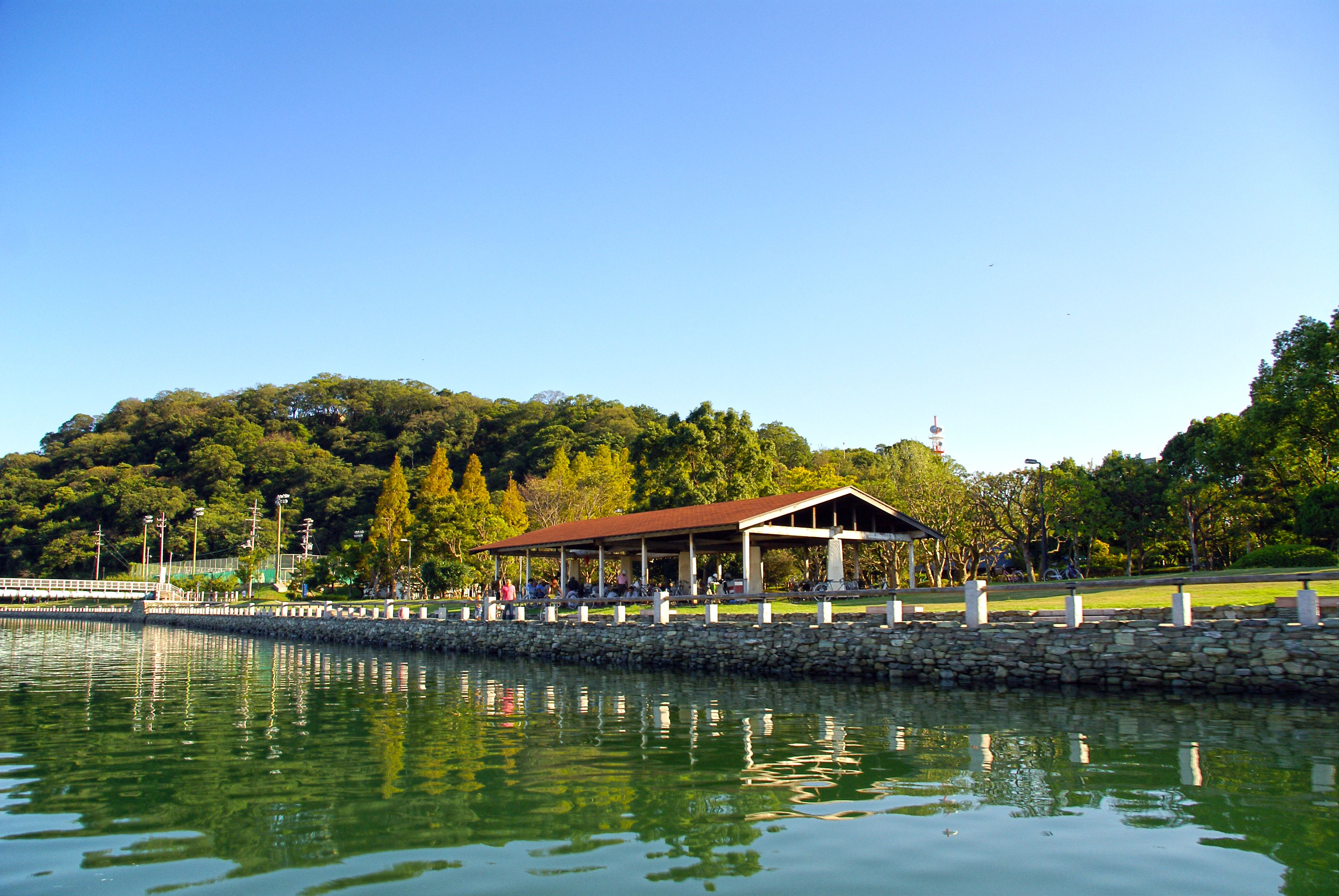 Suketo River in Tokushima, Tokushima prefecture, Japan